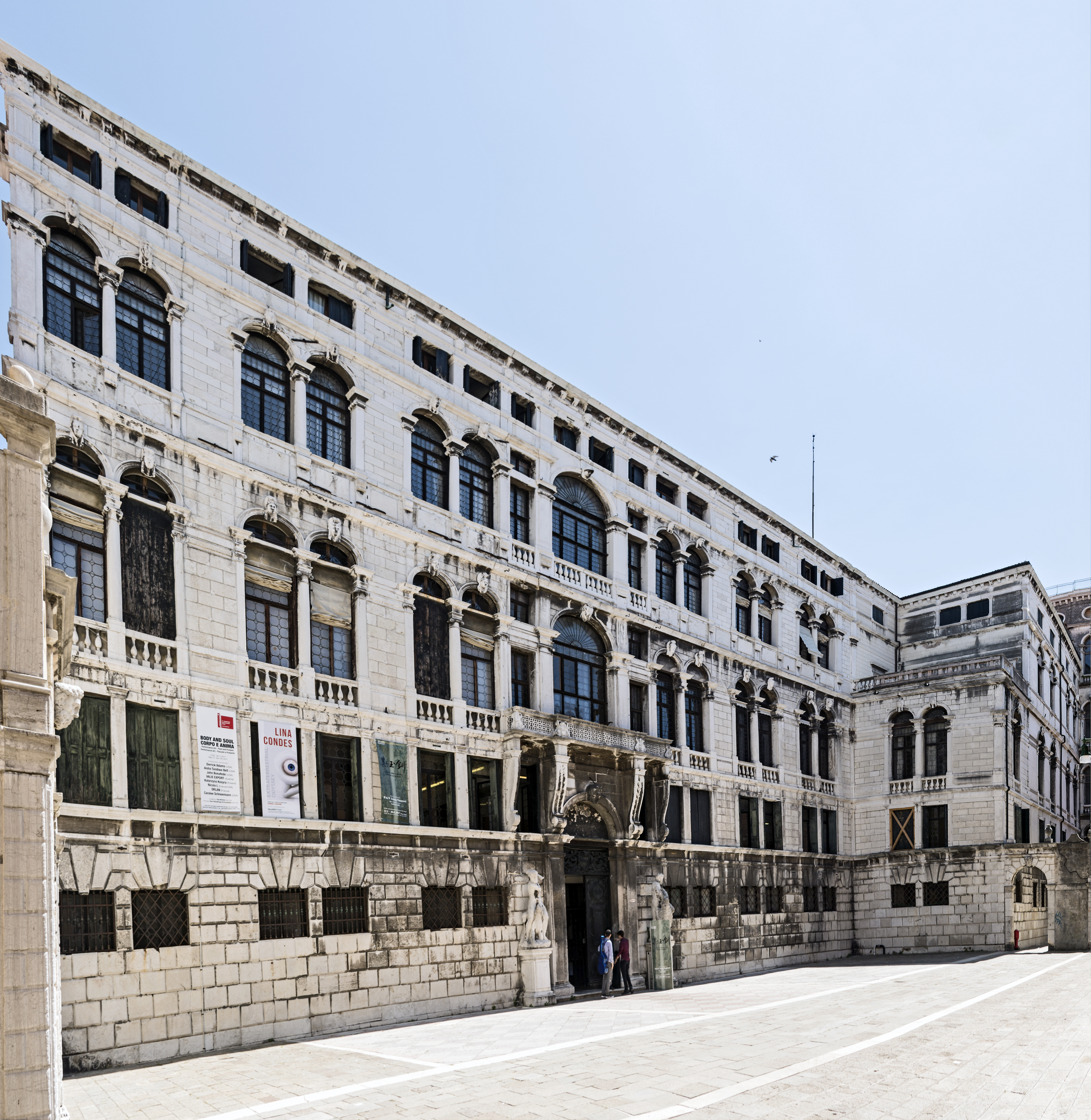 Palace Pisani a Santo Stefano - Venice, headquarters of the Benedetto Marcello Conservatory - Facade on Campiello Pisani.